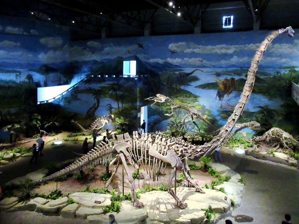 This huge Omeisaurus is a central exhibit at the Zigong Dinosaur Museum at Da'an, Sichuan, China. This museum claims to have the largest number of dinosaur fossils in the world.